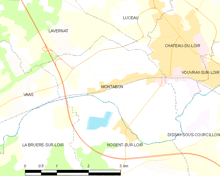 Map of French municipality